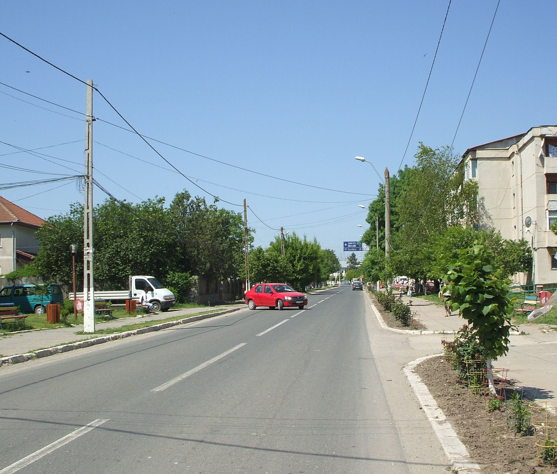 Negru Vodă town center. The local highschool is at the end of the main road in the picture.